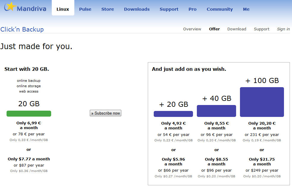 Mandrivaclick-backup.jpg